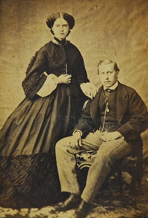 King Luís I of Portugal and Queen Maria Pia of Savoy.